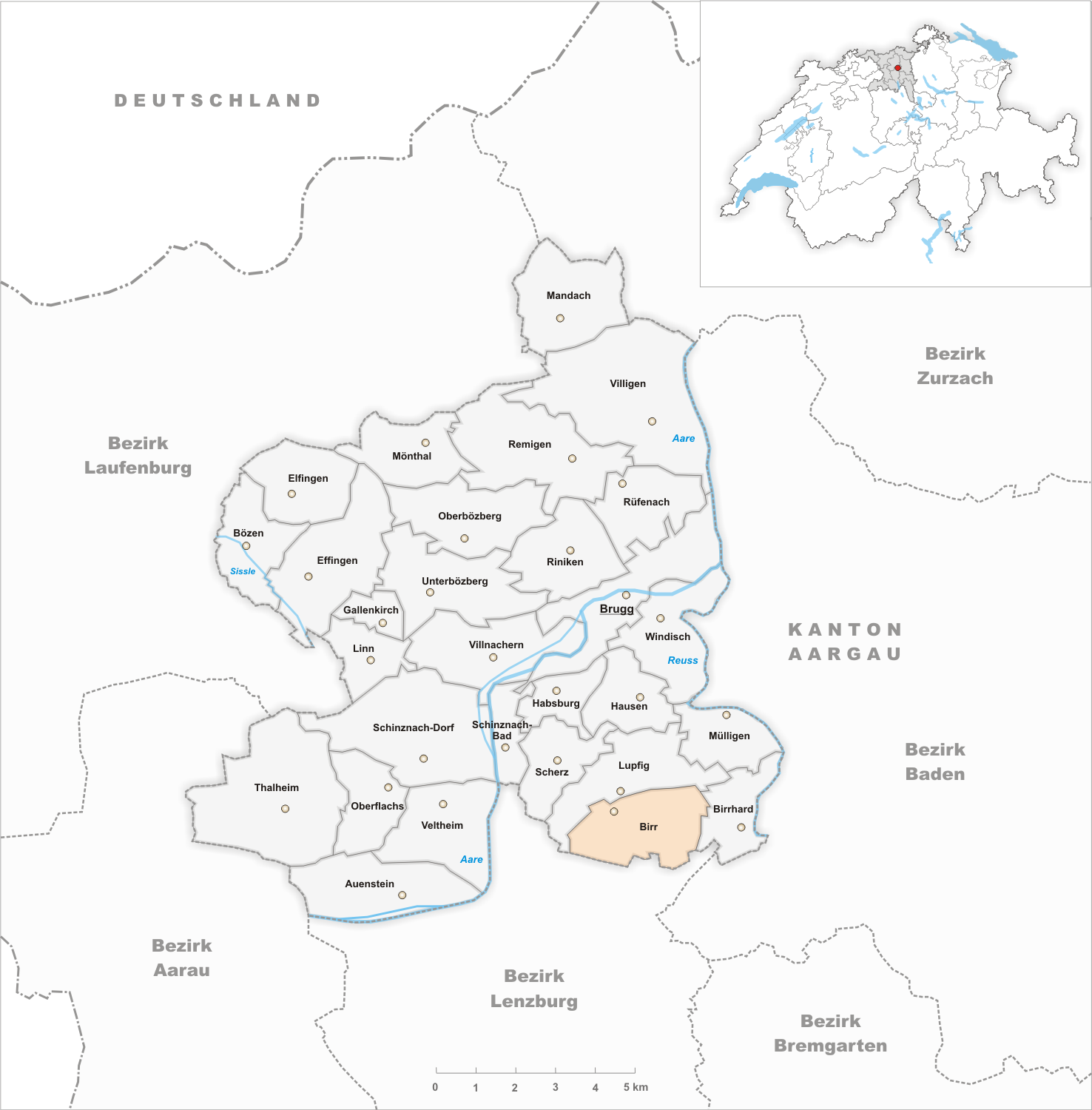 Municipality Birr